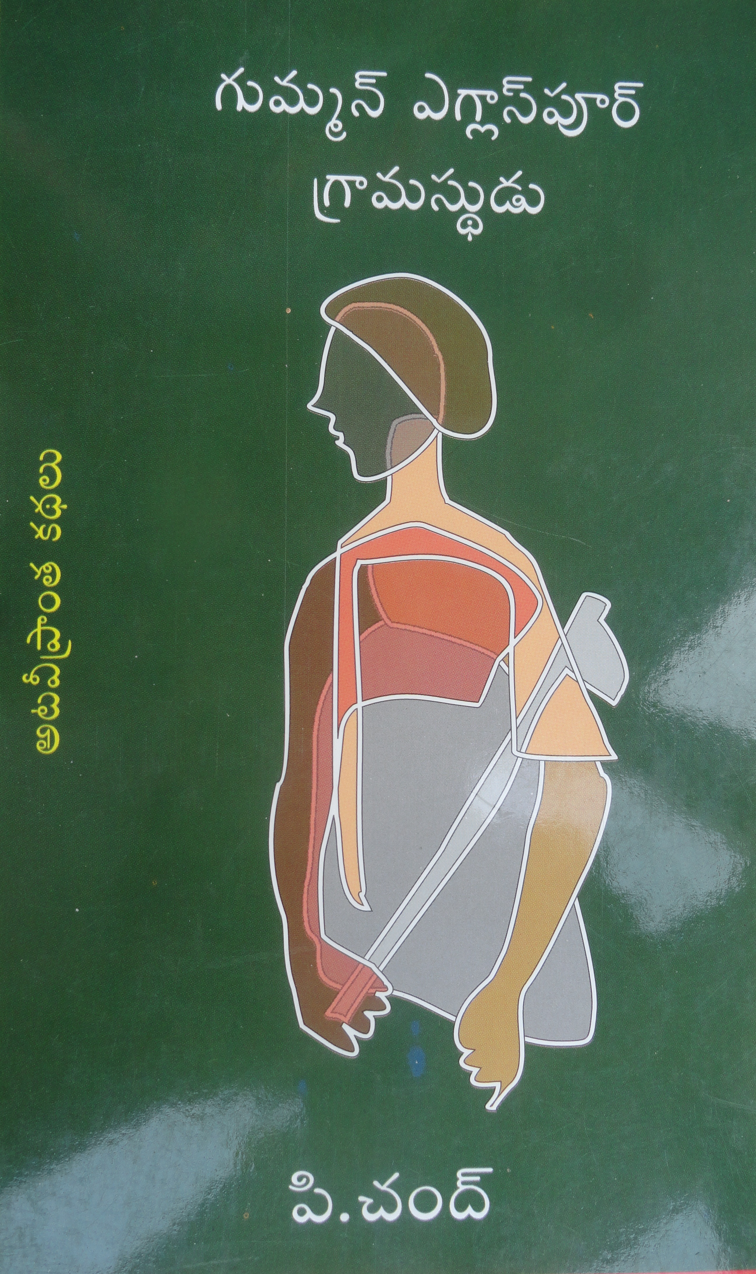 Gamman eglaspur kathalu. book